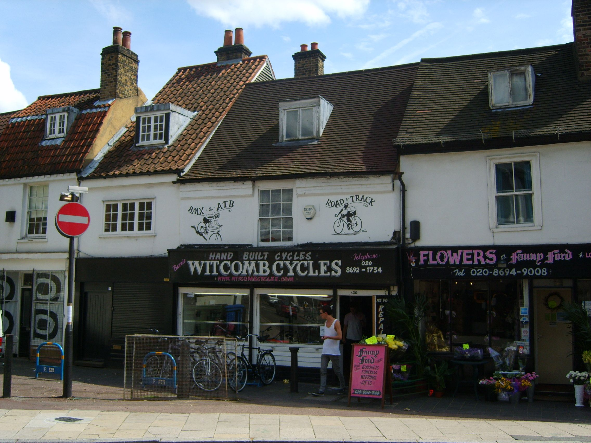 Row of 17th century buildings in Tanners Hill, Deptford, London, including Witcomb Cycles.